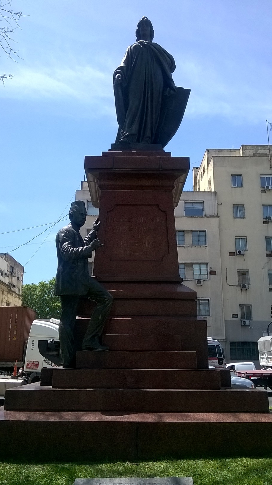 "The Syrian residents to the Argentine Nation in its Centennial 1810 - 1910"